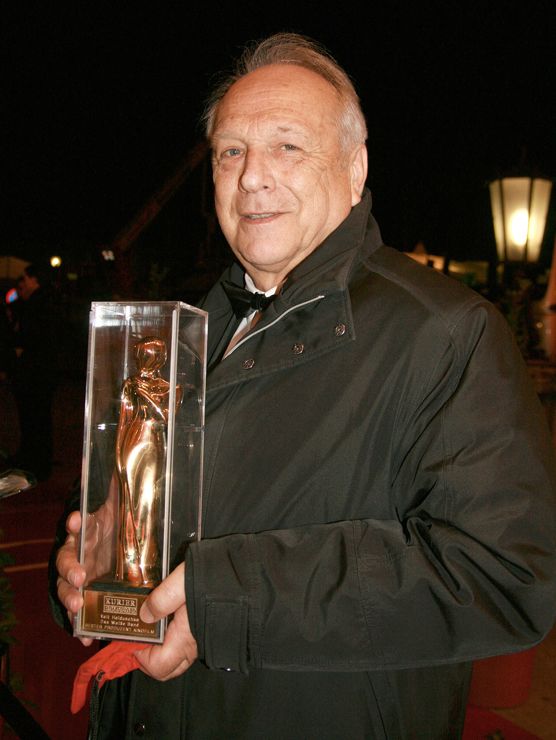 Veit Heiduschka at the Romy TV awards (Hofburg Imperial Palace in Vienna)